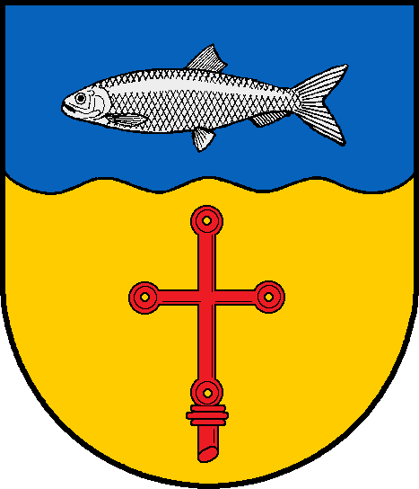 Coat of arms of the municipality Heringsdorf in Schleswig-Holstein, Germany.